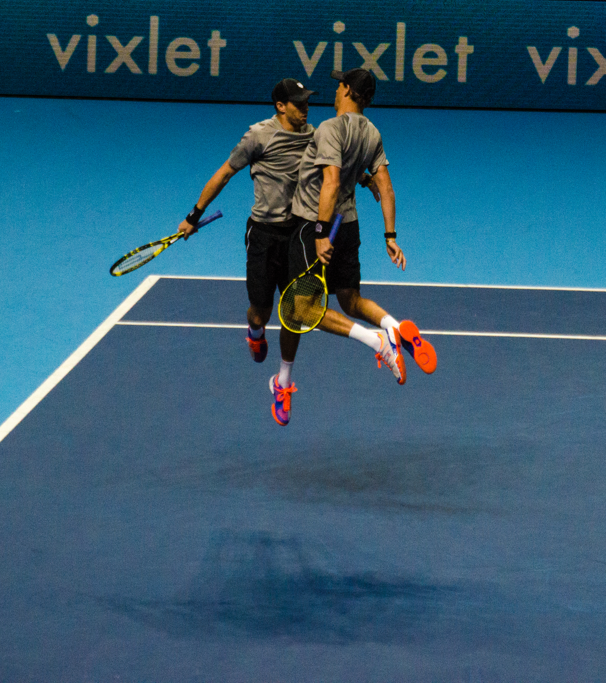 This is a photo of a tennis game at the ATP World Tour Finals.